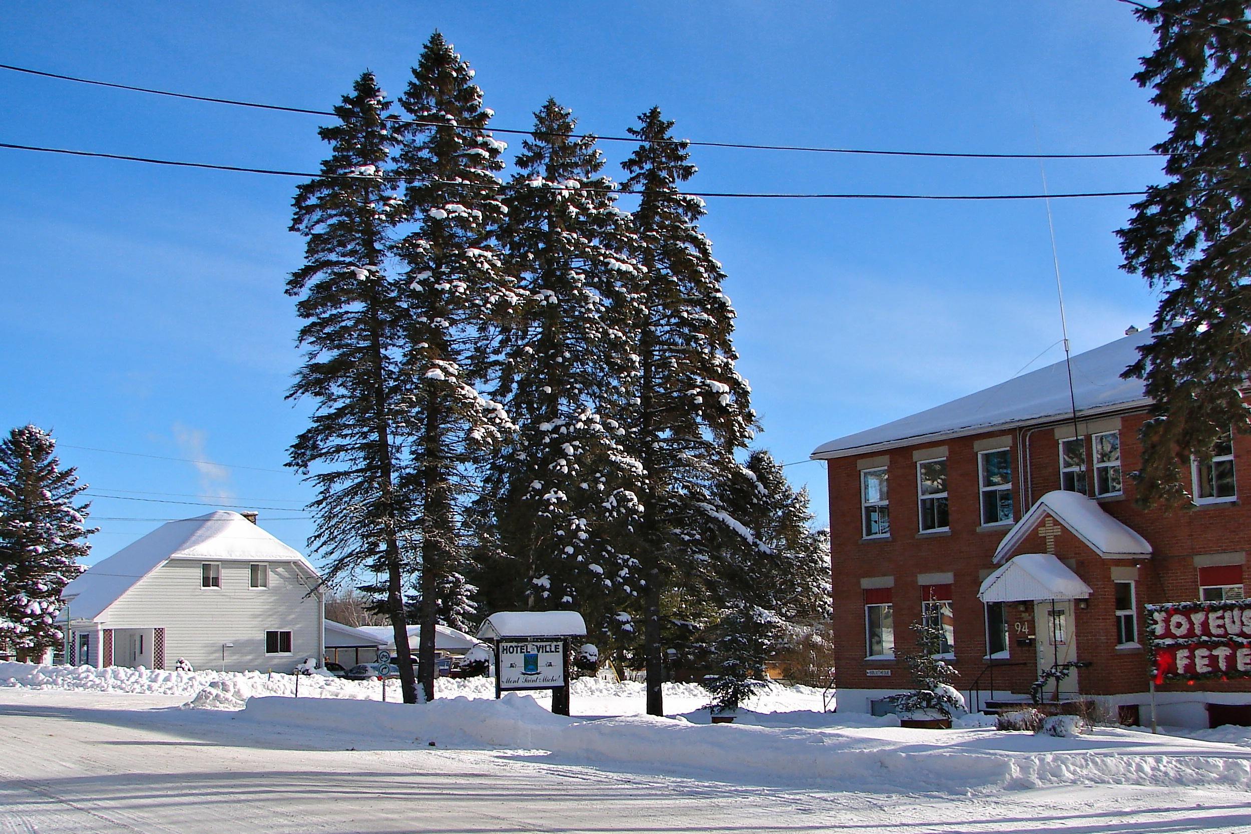 Mont-St-Michel, Quebec, Canada